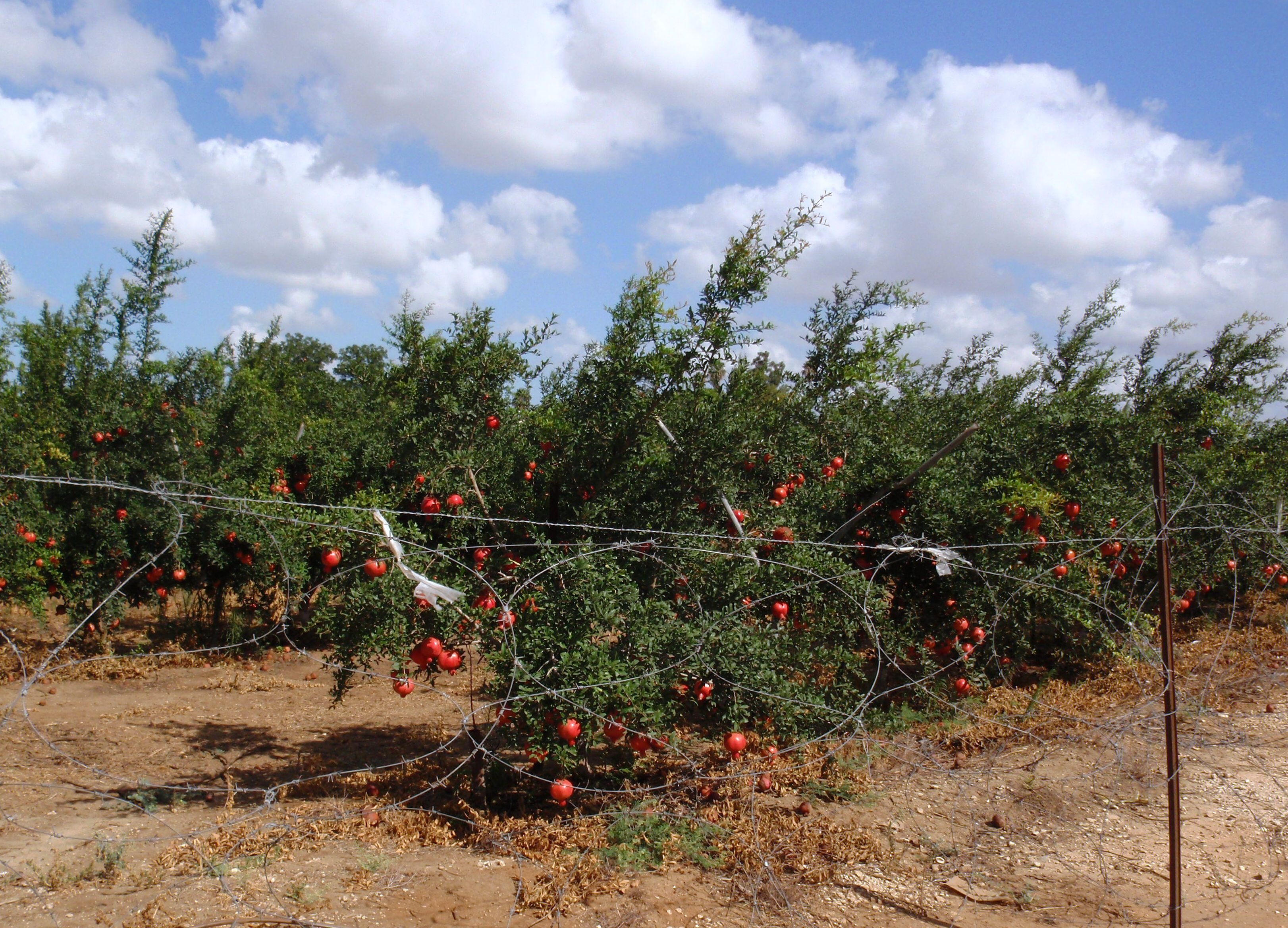 Pomegranate orchard in Magshimim, Israel